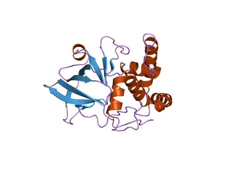 Cartoon representation of the molecular structure of protein registered with 1gy0 code.